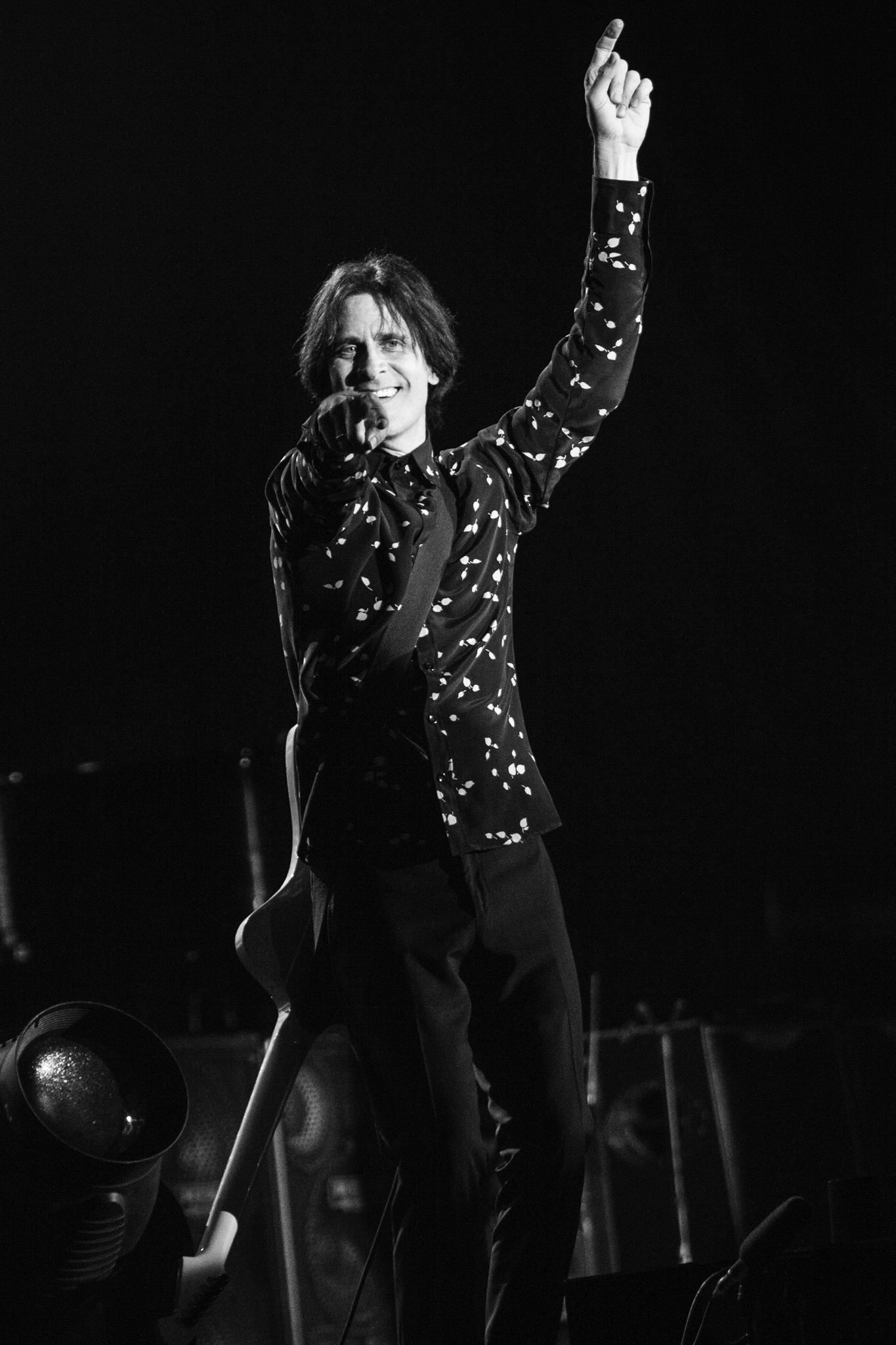 Rusty Anderson performing with Paul McCartney, Saturday 19 April, 2014 at the Centenario Stadium, Montevideo, Uruguay.